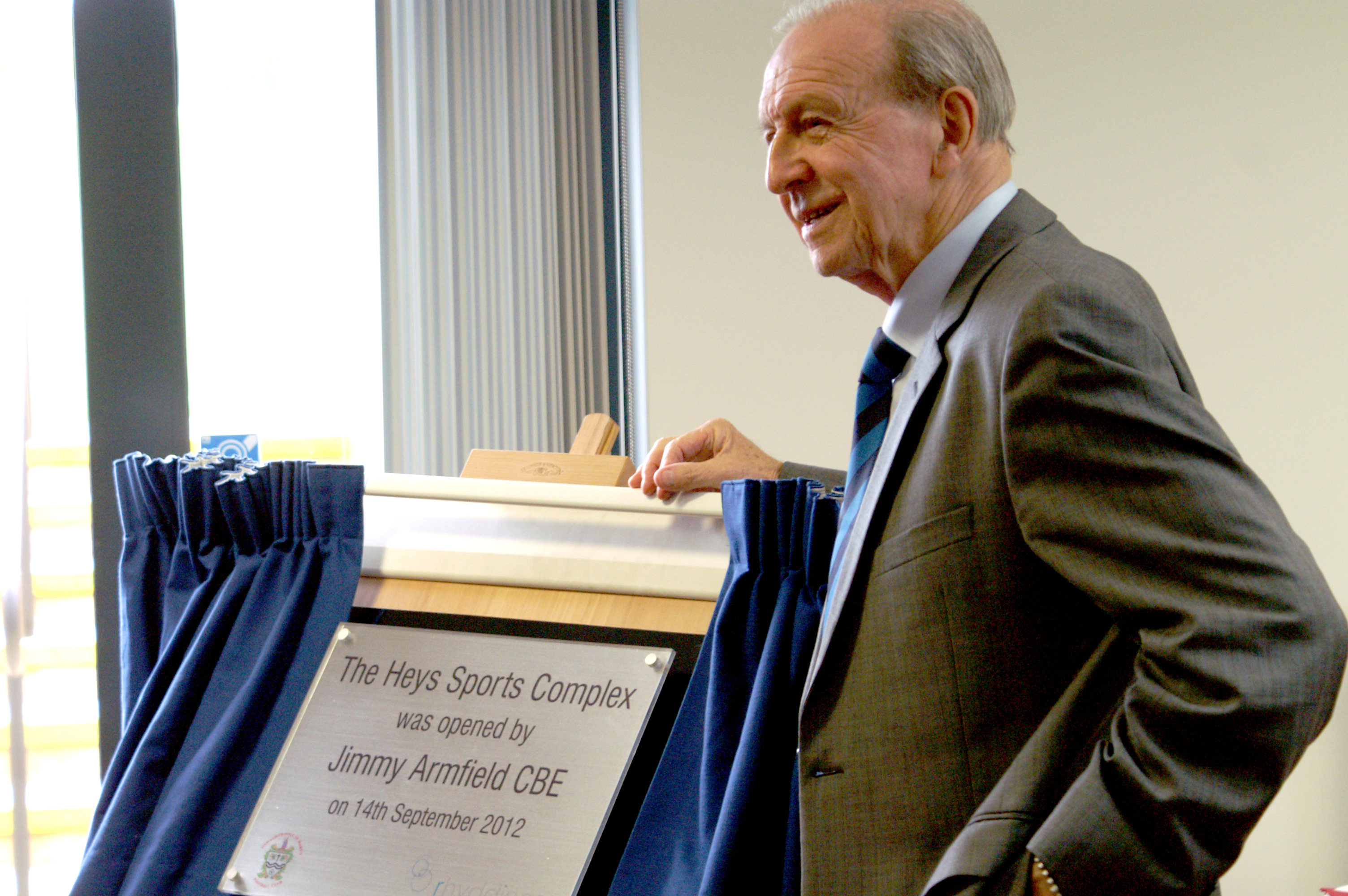 Former England and Blackpool footballer Jimmy Armfield, CBE, officially opening The Heys Sports Complex in Oswaldtwistle, Lancashire, UK, in September 2012.